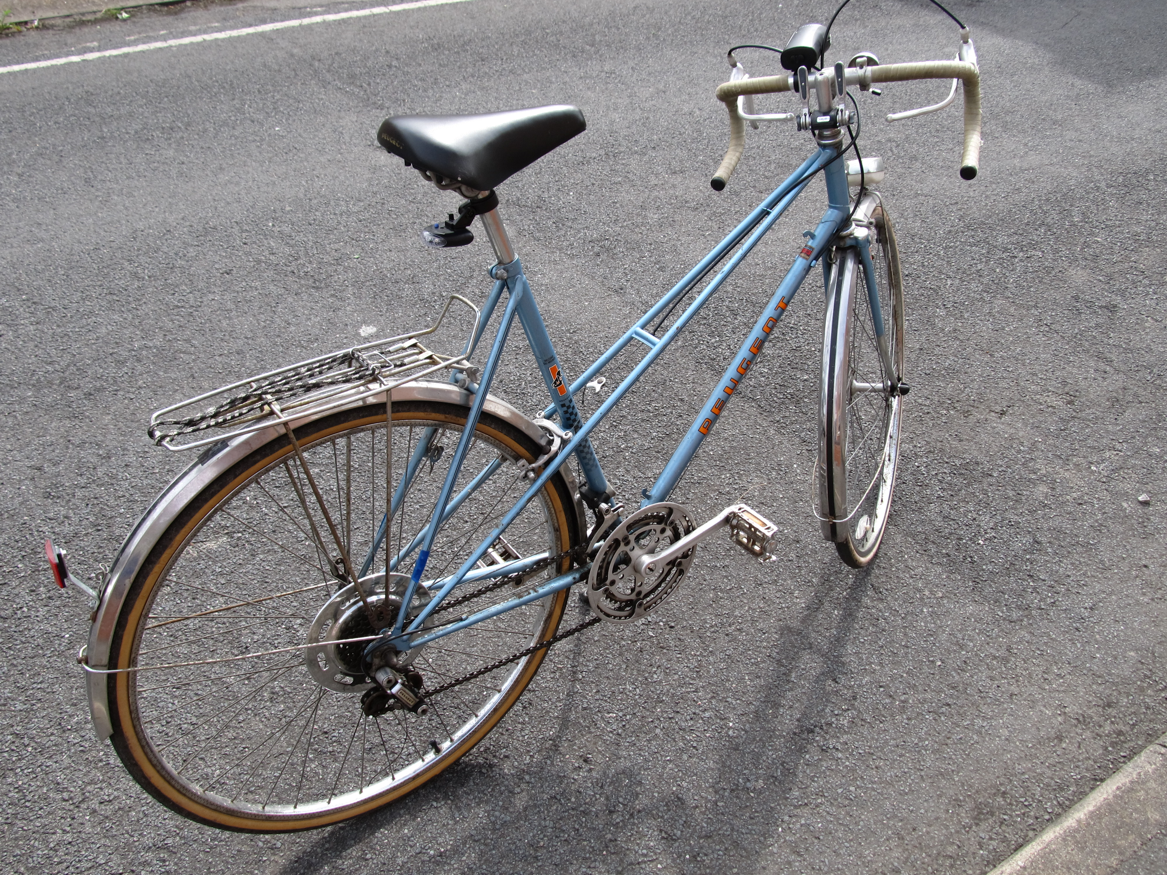 Peugeot Mixte bicycle, about 30 years old. This is I believe a Peugeot Ladies Sports PX18 (Mixte frame), purchased 1980 or 1981, as seen at the bottom of page 4 of the 1981 UK catalogue. The rear light/reflector is not original, and the dynamo is missing; otherwise original with modern lights added. The flip down stand (barely visible) is original.